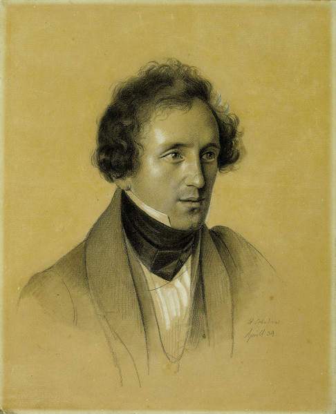 Felix Mendelssohn Bartholdy, portrait by Friedrich Wilhelm von Schadow